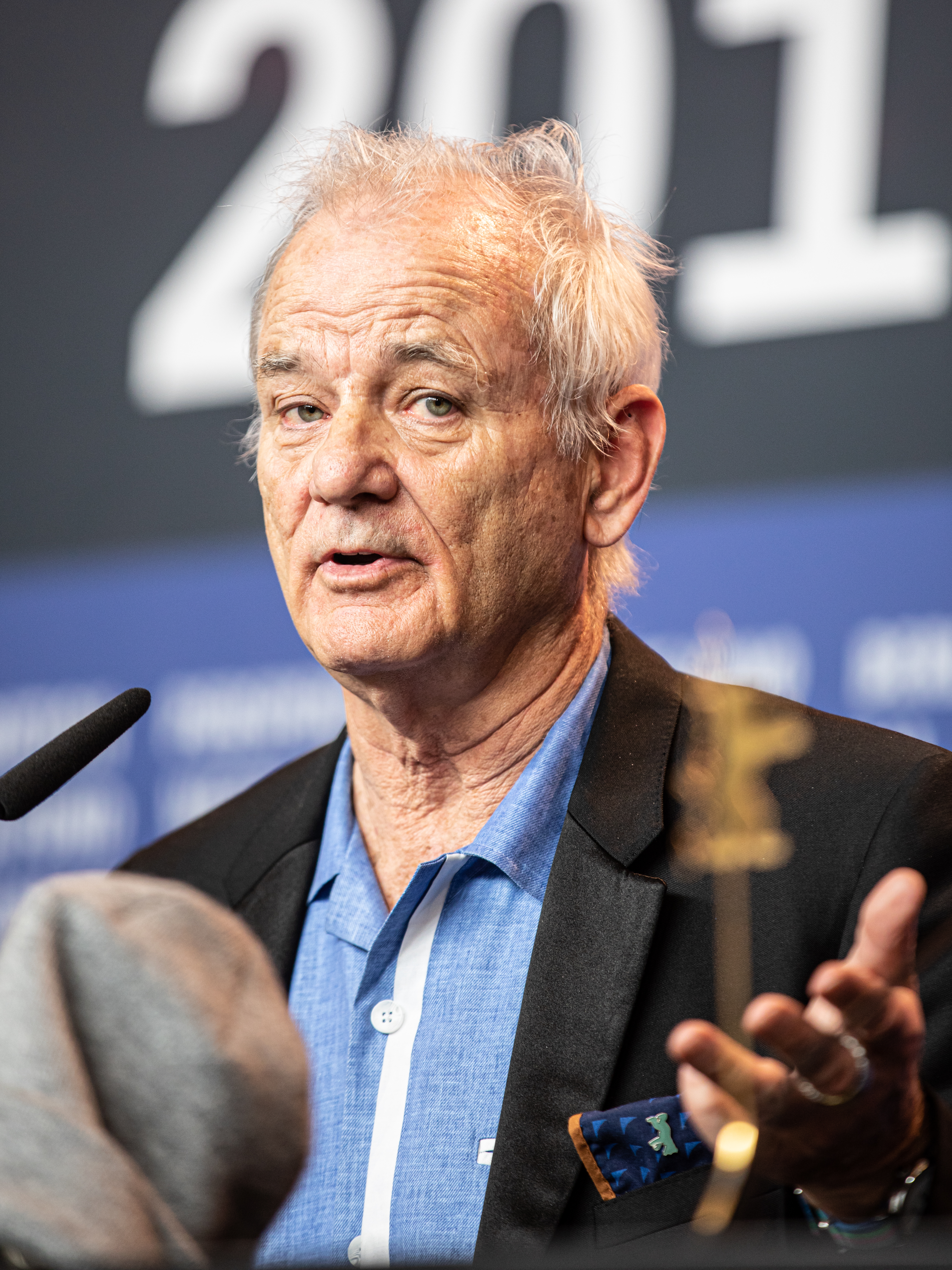 Actor Bill Murray at the 68th Berlin International Film Festival 2018